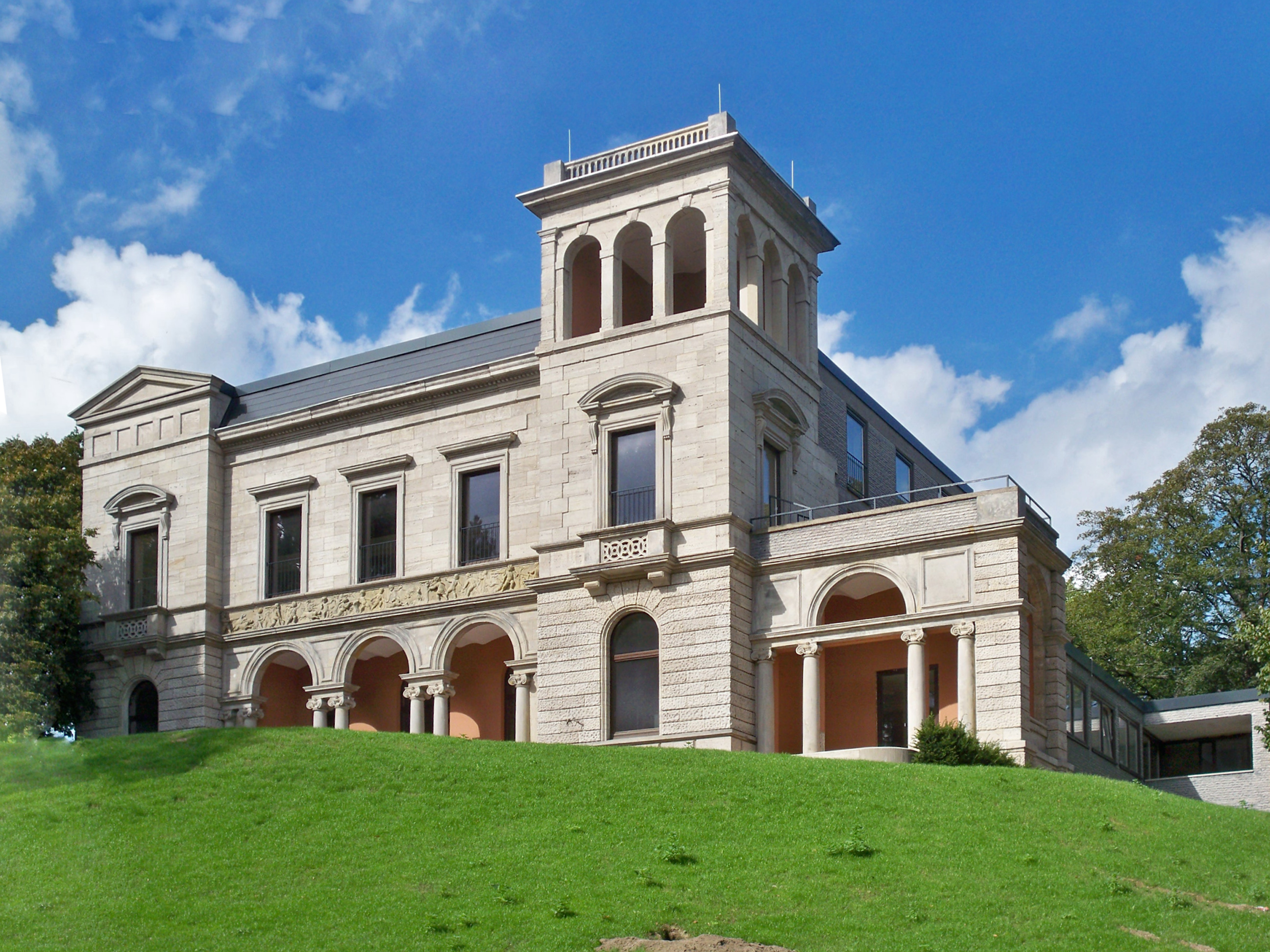 Brunswick, Lower Saxony, Löbbecke's Villa in the Inselwallpark